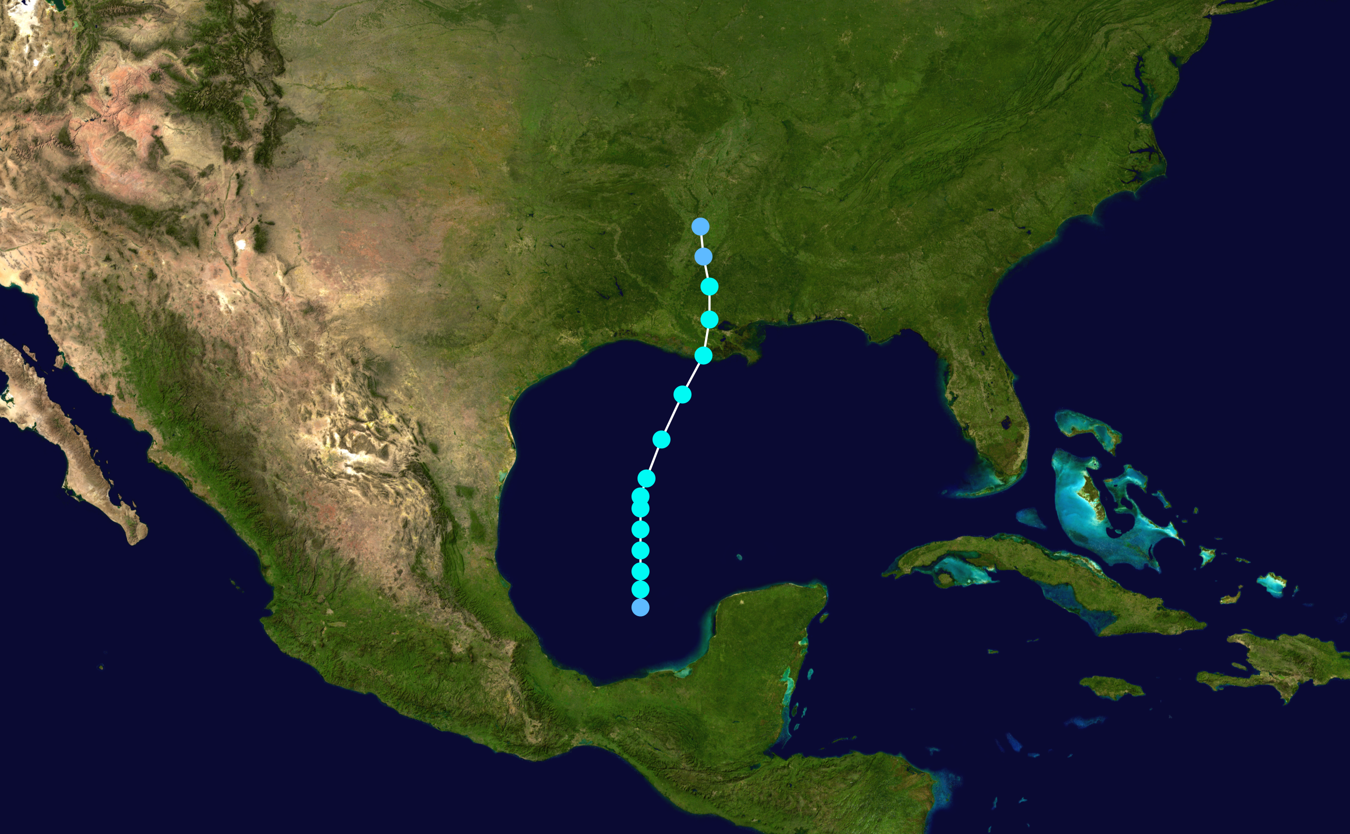 Tropical Storm Esther (1957) track. Uses the color scheme from the Saffir-Simpson Hurricane Scale.